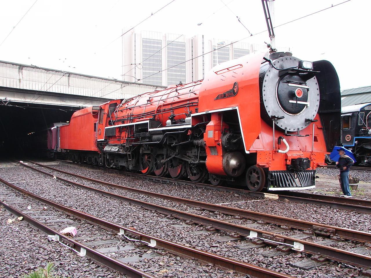 SAR Class 26 3450 (4-8-4), the Red DevilBuilder's Number: Henschel 28769Rebuilding: Rebuilt from Class 25NCLocation: Monument Station, Cape Town